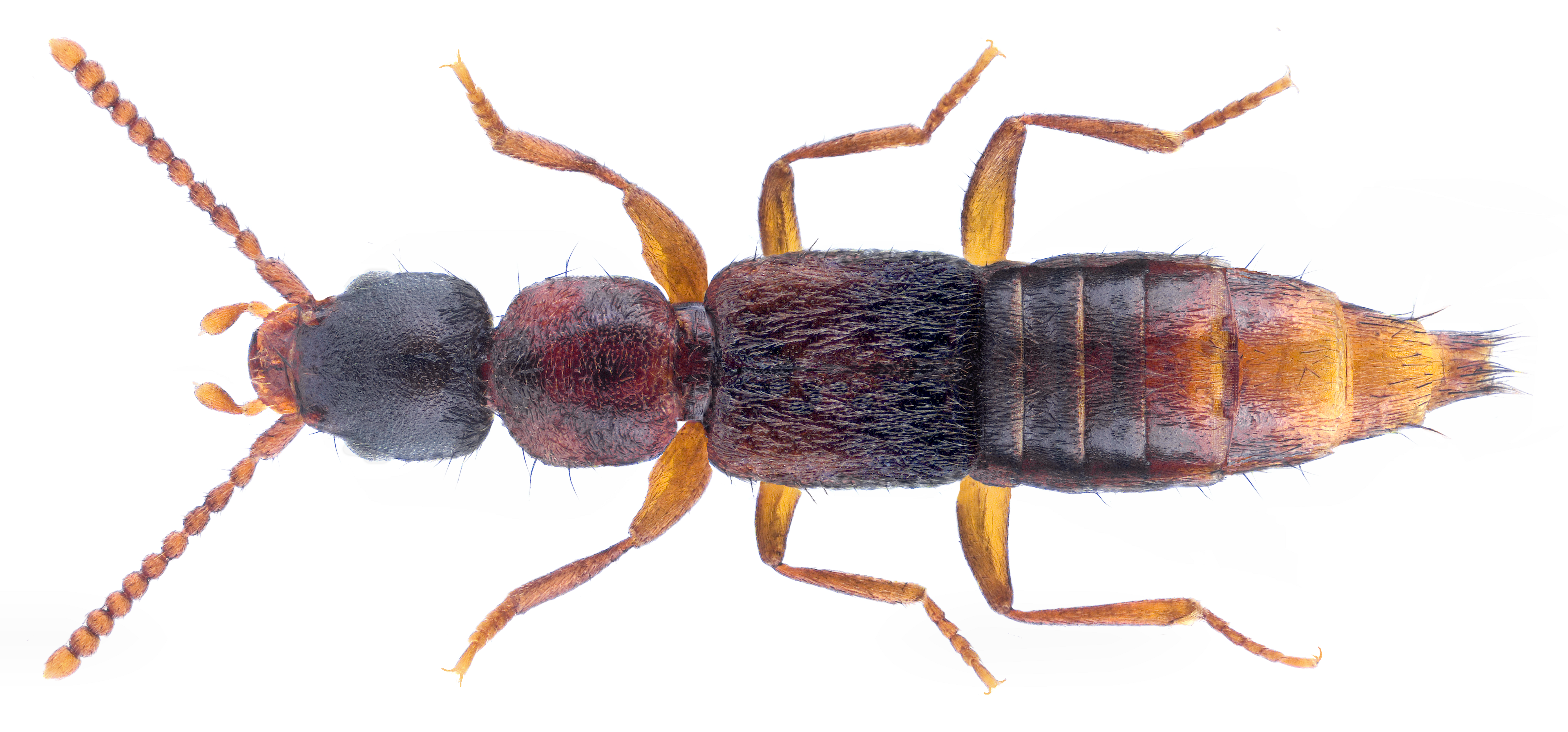 Family: Staphylinidae Size: 3.7 mm (3.5 to 4.0 mm) Origin: Europe Ecology: Propably lives underground Location: Germany, Bavaria, Upper Franconia, Carlsgruen, Kroetenmuehle, in rotting hay leg.det. U.Schmidt, 1.V.2003 Photo: U.Schmidt, 2017